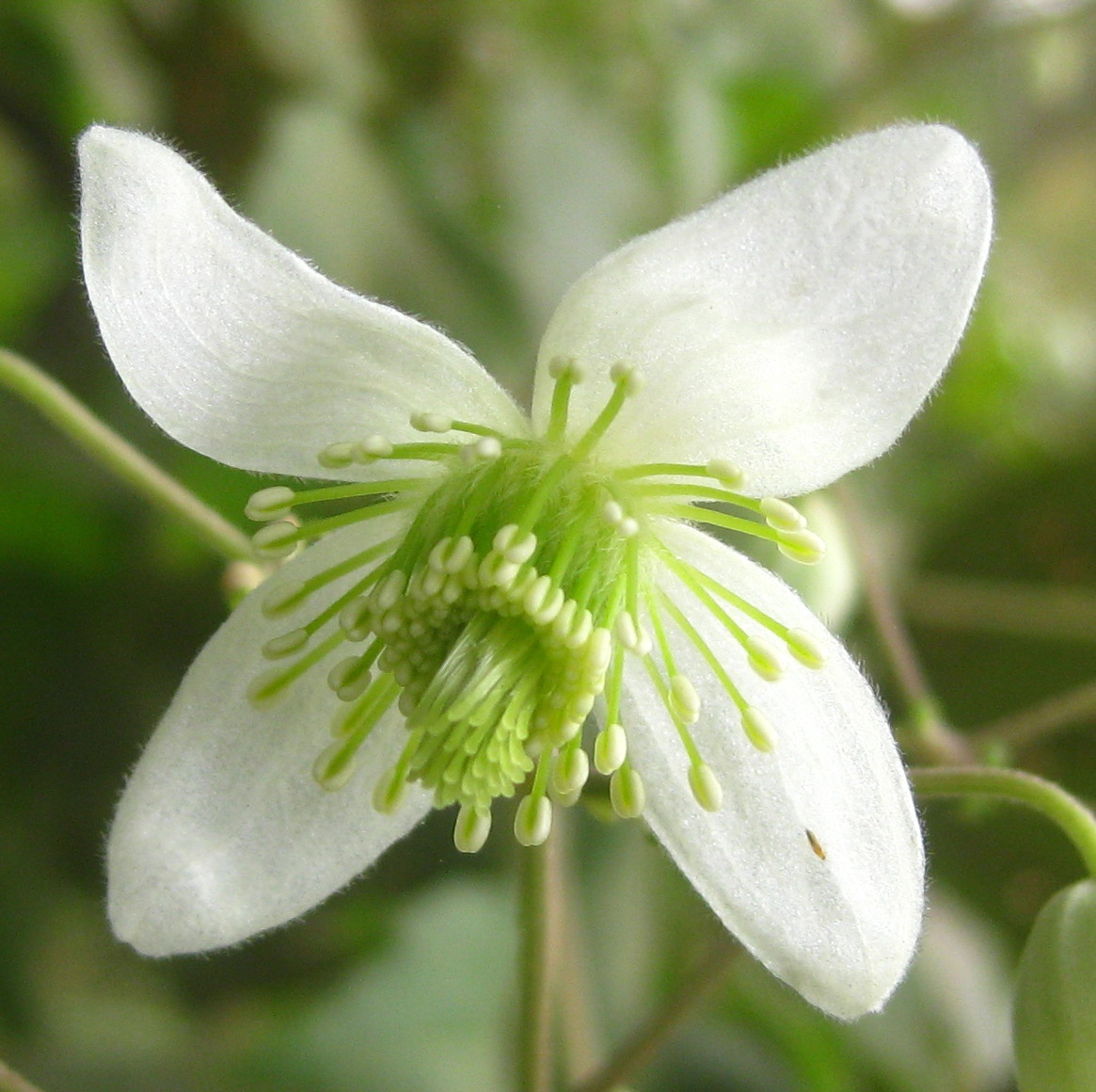 Wild Clematis brachiata close to Chicamba, Mozambique.